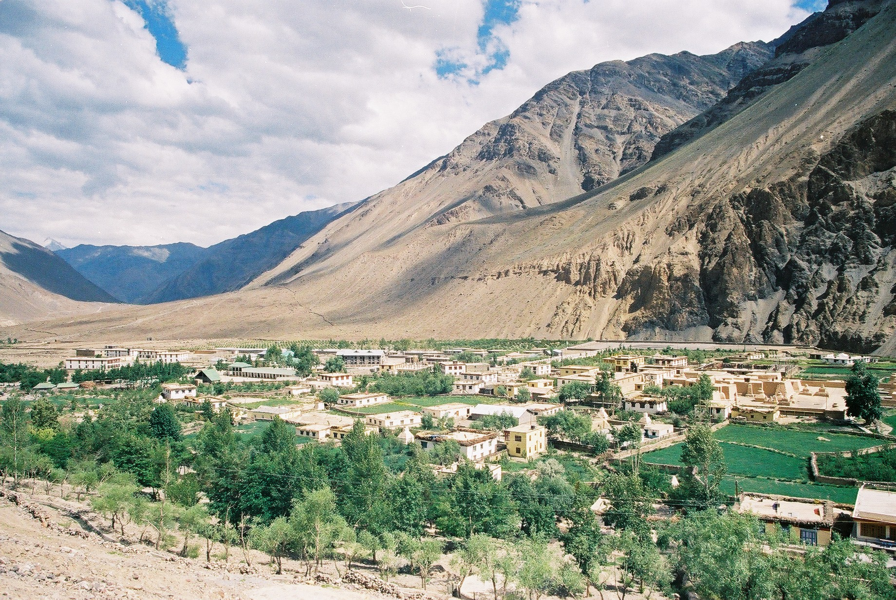 Tabo Village, Spiti.Himachal Pradesh